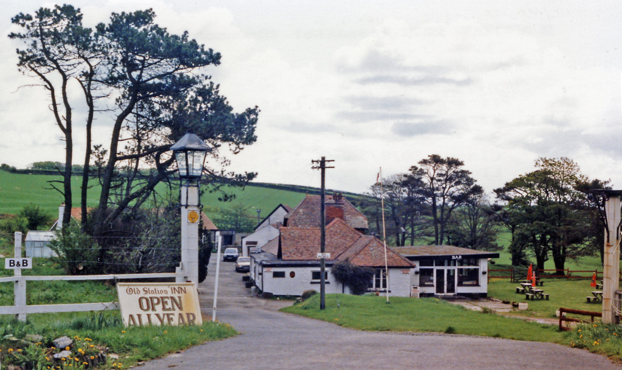 Former Blackmoor Gate station. View SW on A39 road, towards Barnstaple: ex-SR Lynton & Barnstaple narrow-gauge Railway, closed 30/9/35. The station has been converted to the Old Station Inn.